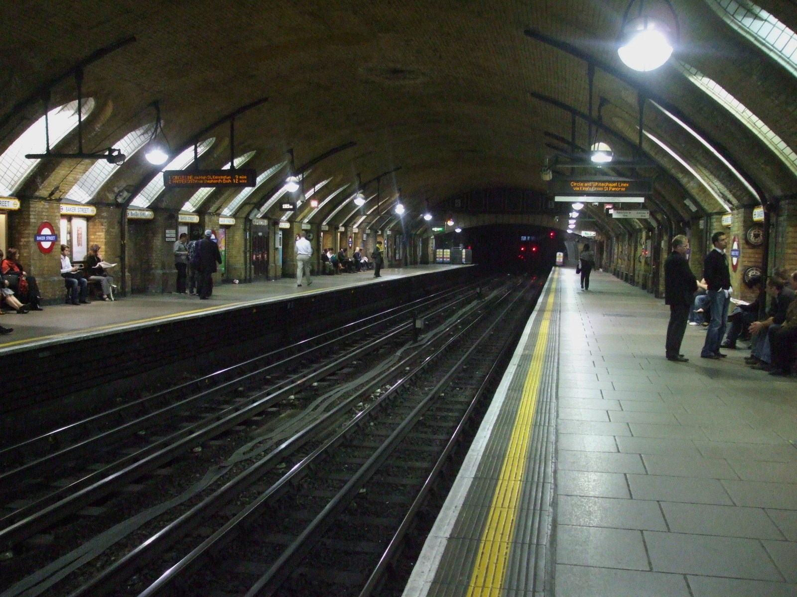 Baker Street tube station Circle/Hammersmith & City line platforms looking west/anti-clockwise.